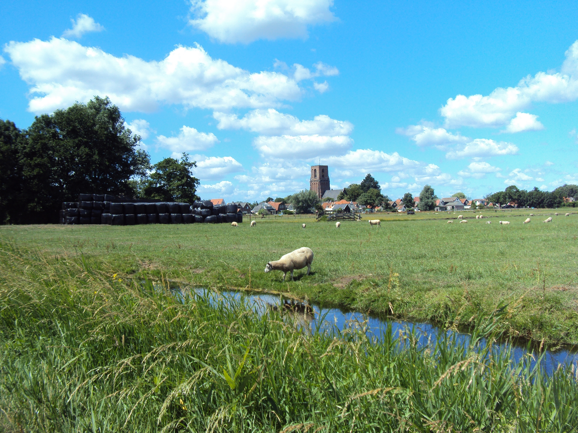 The tower of Ransdorp, a village north of Amsterdam